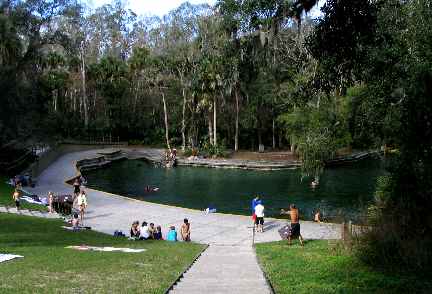 Wekiwa Springs State Park - the Spring. Taken by User:Mwanner 15 January, 2007.